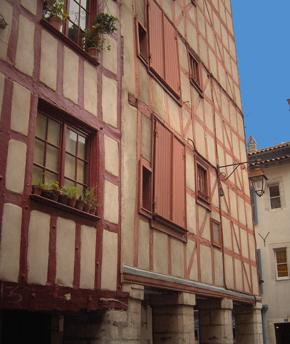 Bayonne, France; half-timbered houses in Petit Bayonne